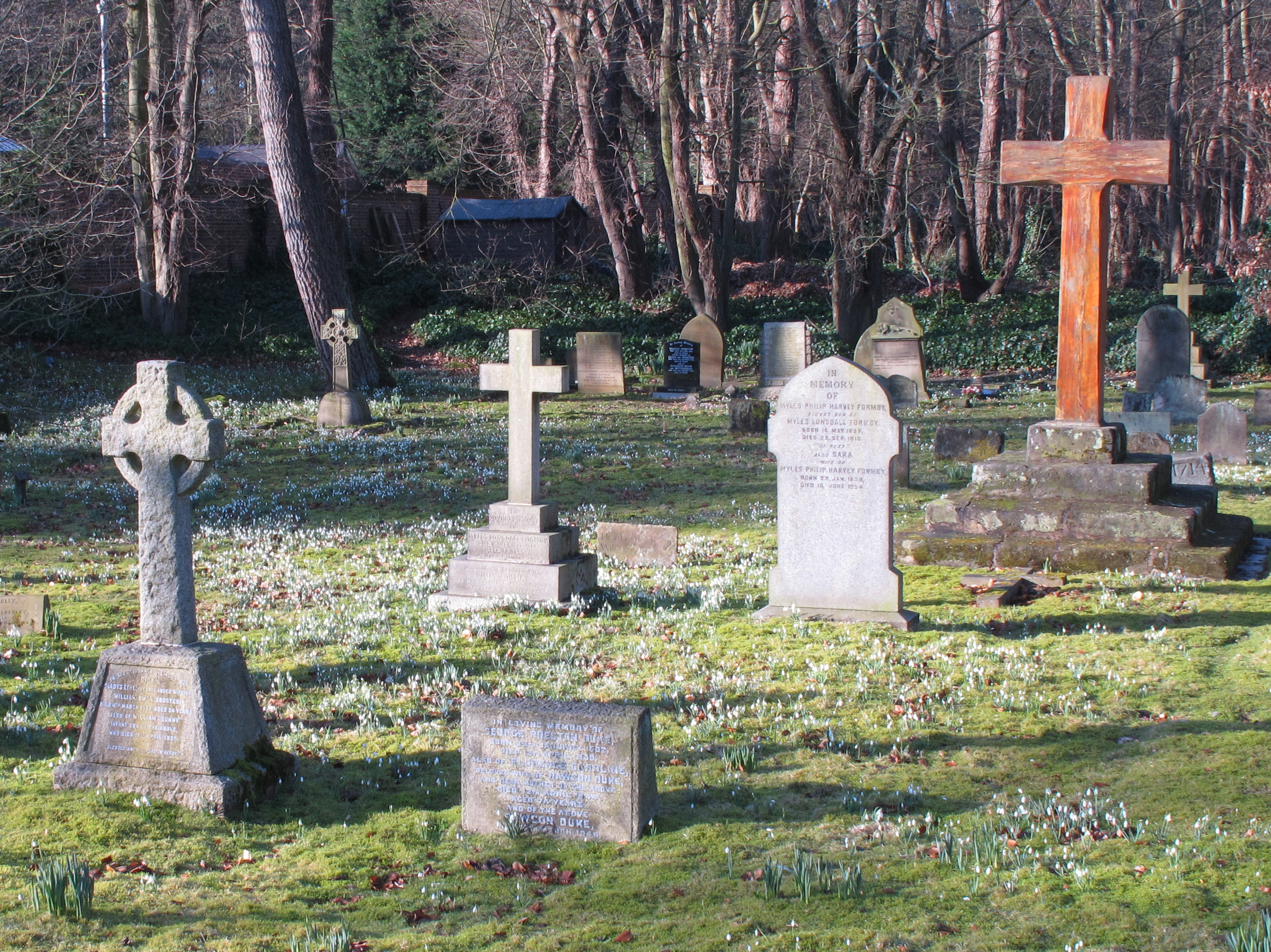 Photograph of St Luke's Churchyard, Formby, Merseyside